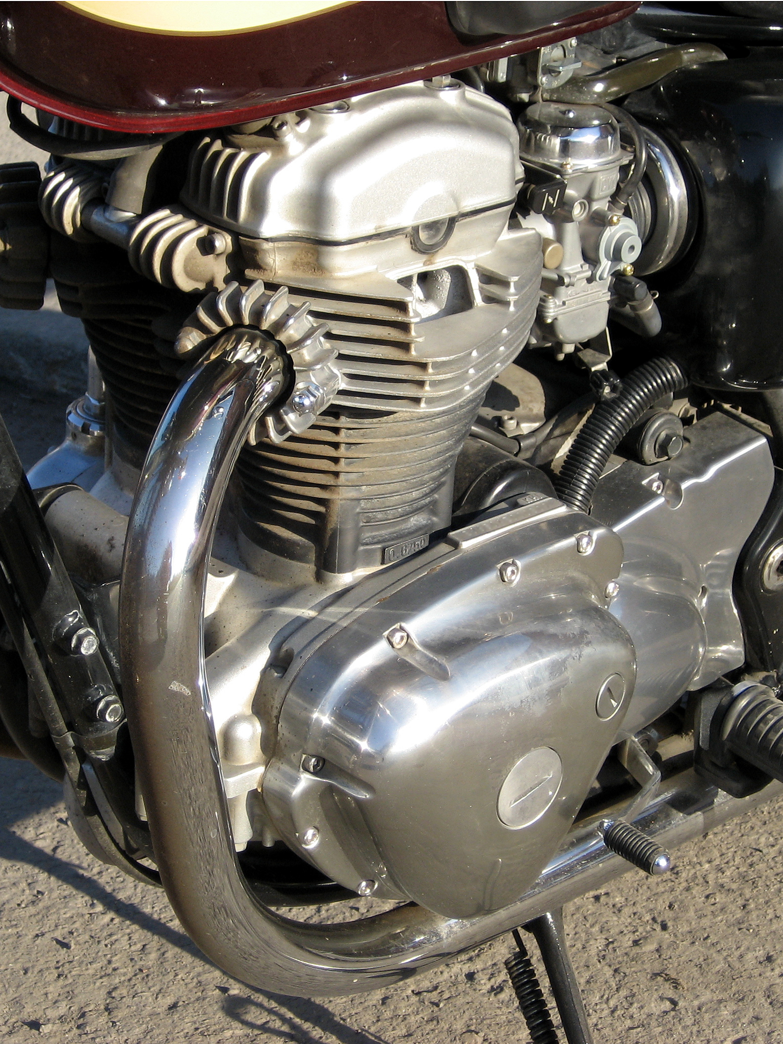 Kawasaki´s retro motorcycle W650 (1999 model) features a traditional looking British style vertical parallel twin engine on the outside. Inside, it´s completely modern (unit construction, SOHC, 8 valves). No pushrods here.